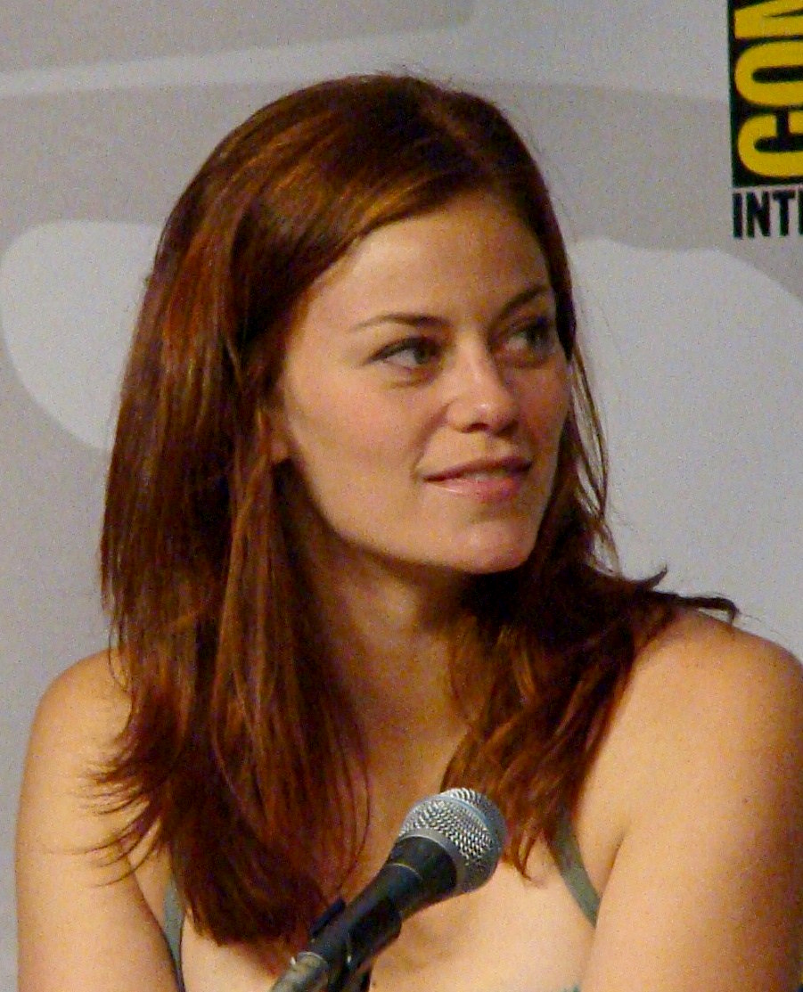 Cassidy Freeman at ComicCon 2010